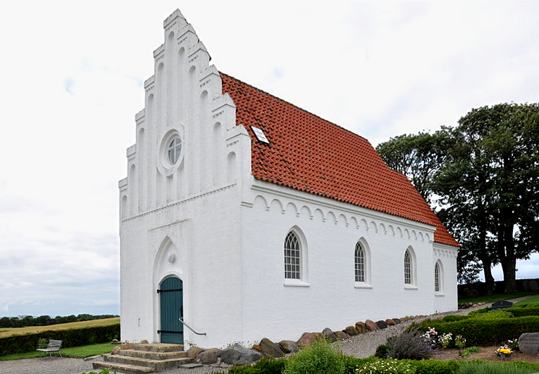 Langør Church (Samsø Municipality, Denmark).